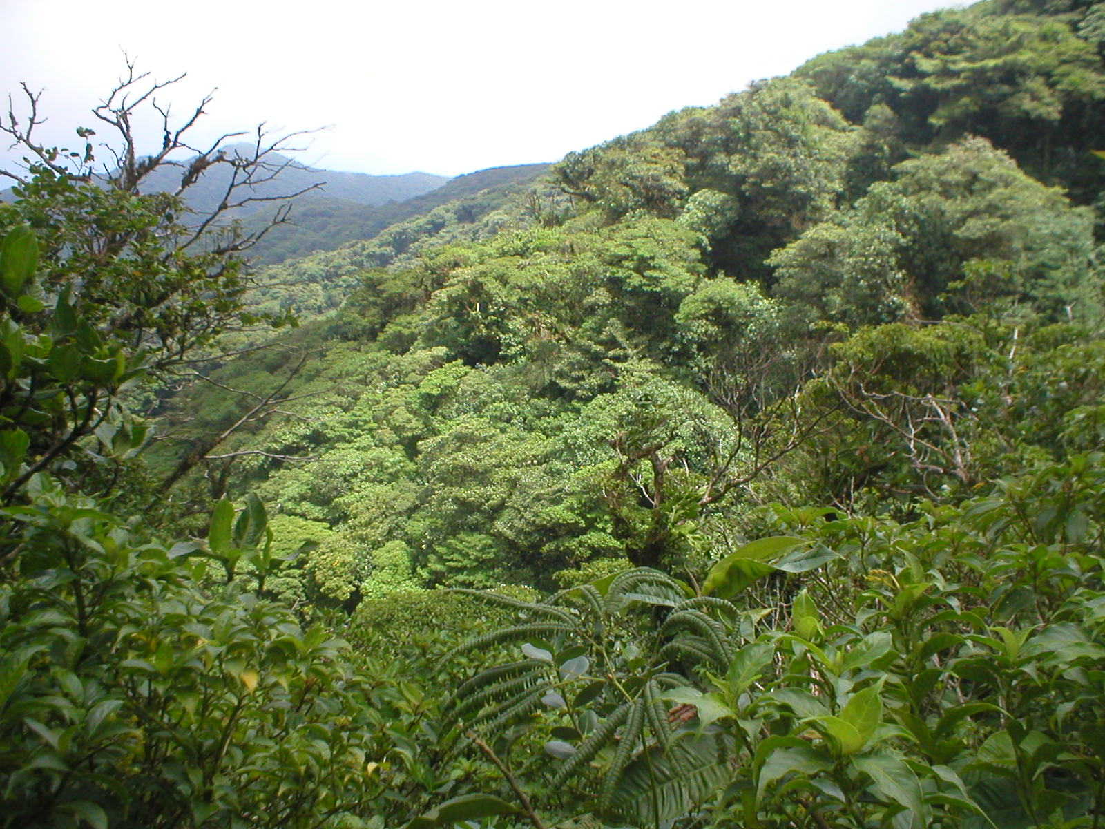 Near the summit.Trees on Maderas, Nicaragua